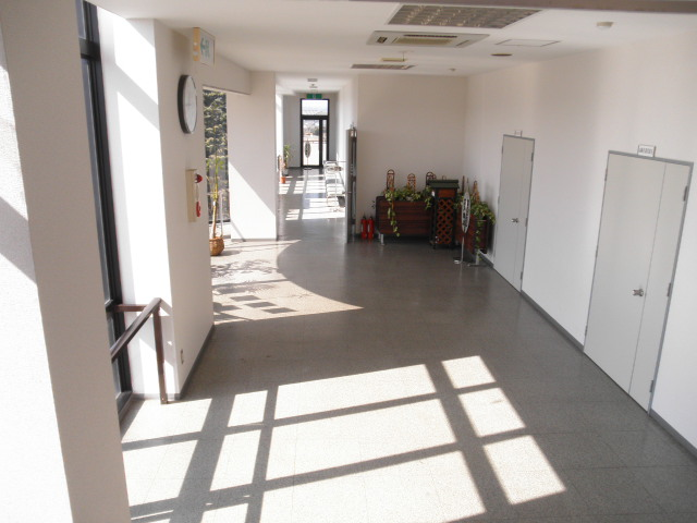 Hirono driving school 2F corridor